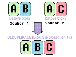 Simplified de-duplication schema